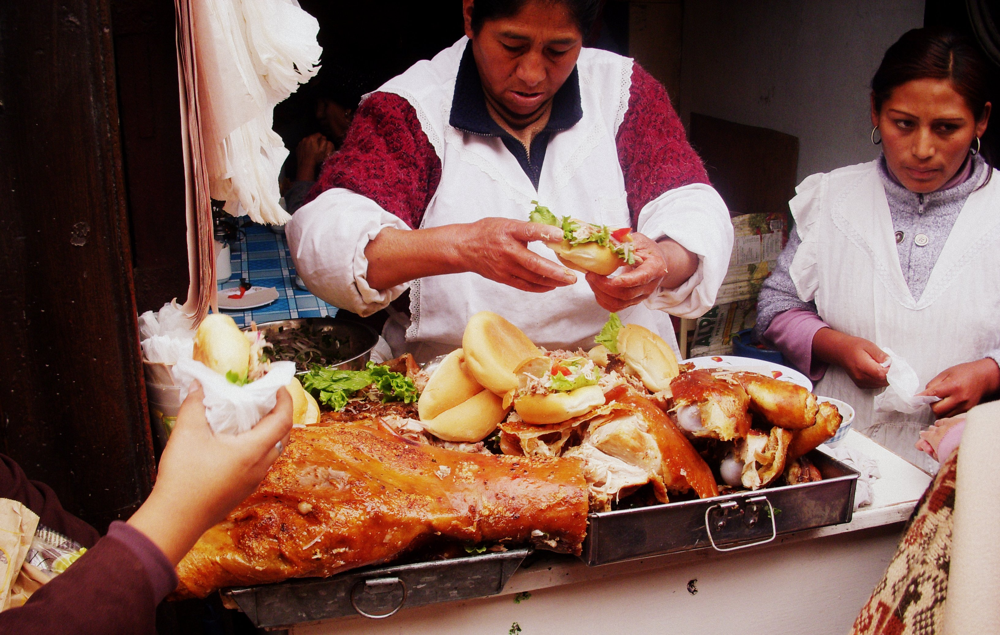 Fiestas Patrias brought out all the best street food vendors in Lima. I started the morning with a butifarra sandwich. Only 1.50 soles.